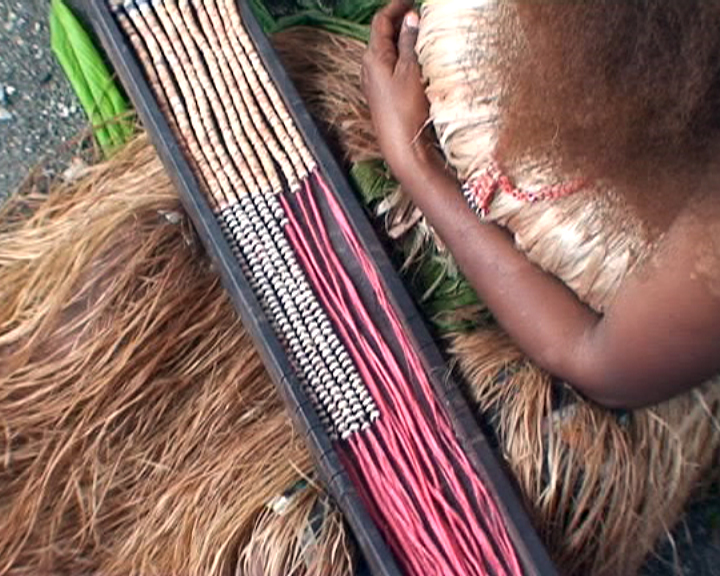 Process of minting shell money on Laulasi Island